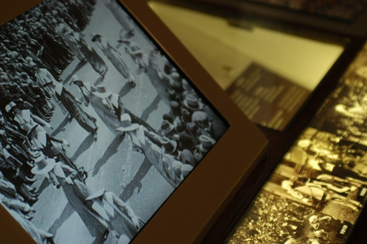 Image of Herbert Media gallery work